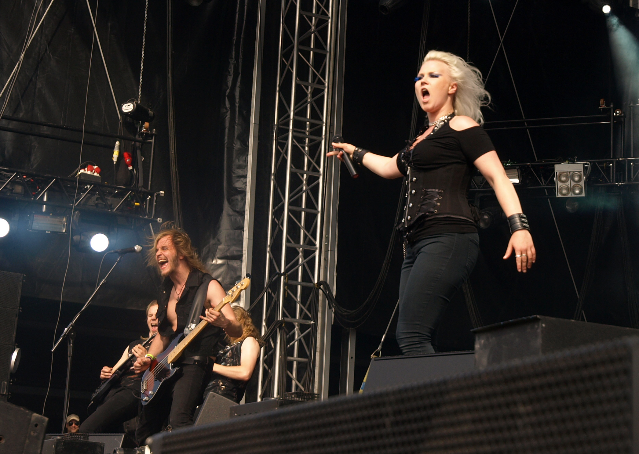 Finnish band Battle Beast at Tuska Open Air 2013